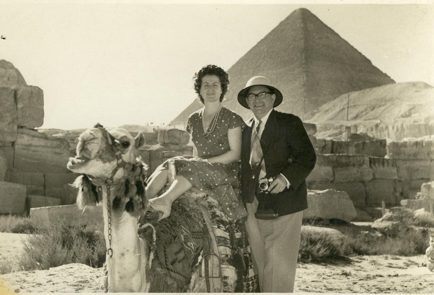 Zati Sungur with Necla on Egypt Tour in 1959 in Cairo